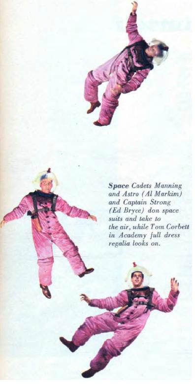 Photo of Cadets Manning (Jan Merlin), Astro (Al Markim) and Strong (Ed Bryce) from the television program Tom Corbett, Space Cadet.